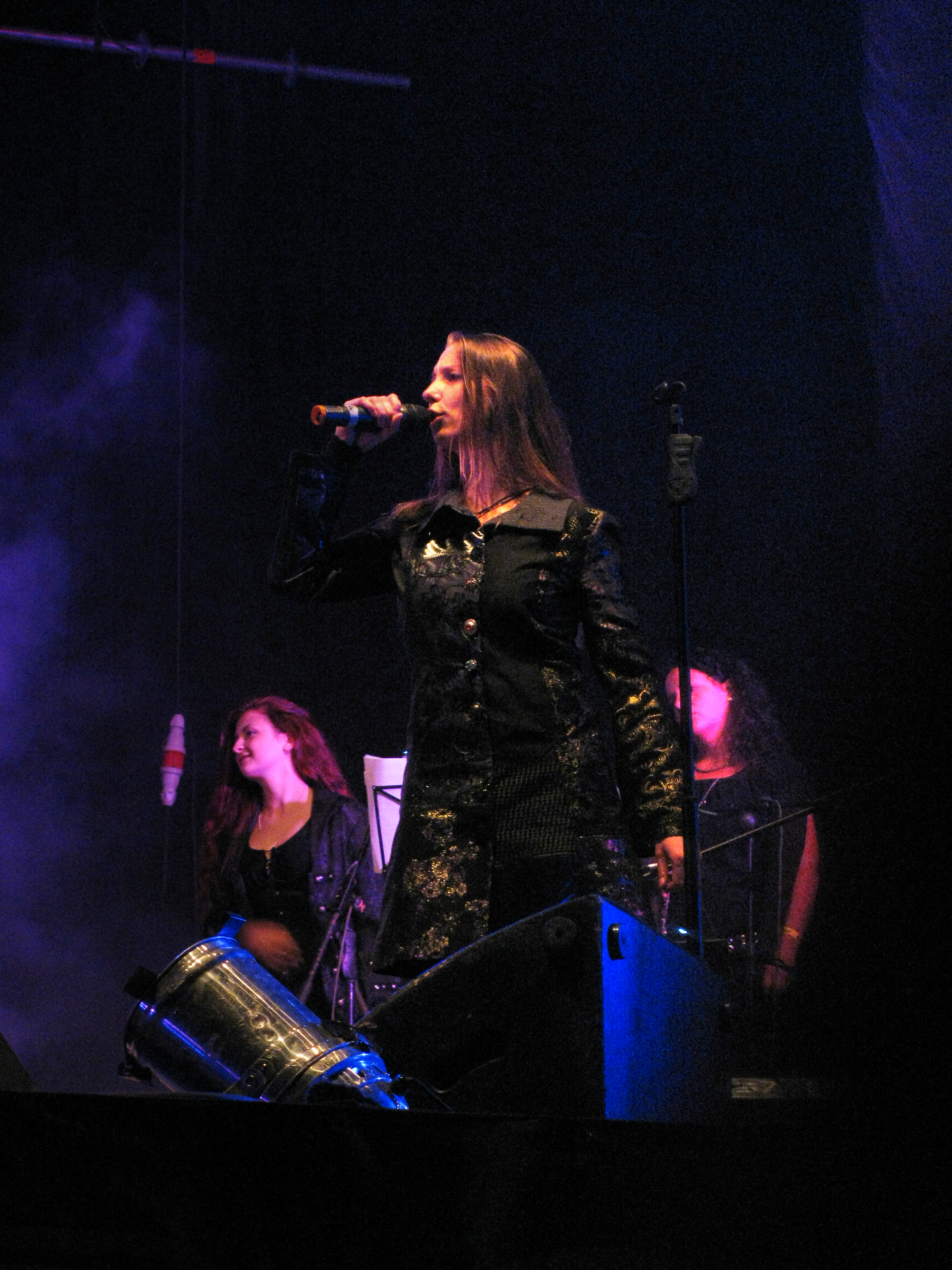 Haggard playing at Global East Rock Festival 2010